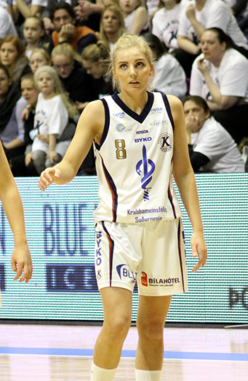 Embla Kristínardóttir of Keflavík during the 2015 Icelandic Basketball Cup Finals against Grindavík.